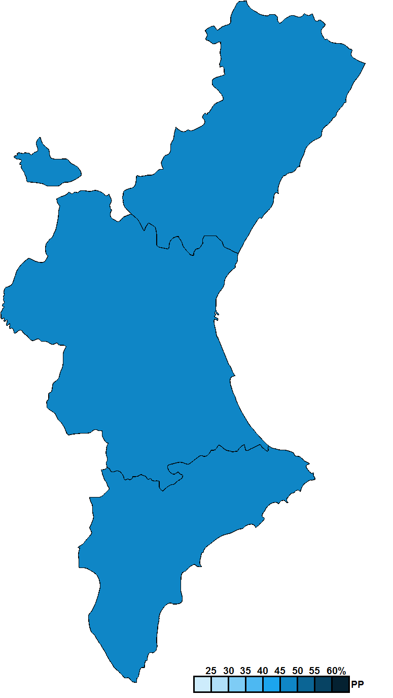 Provincial results for the 1999 Valencian regional election.